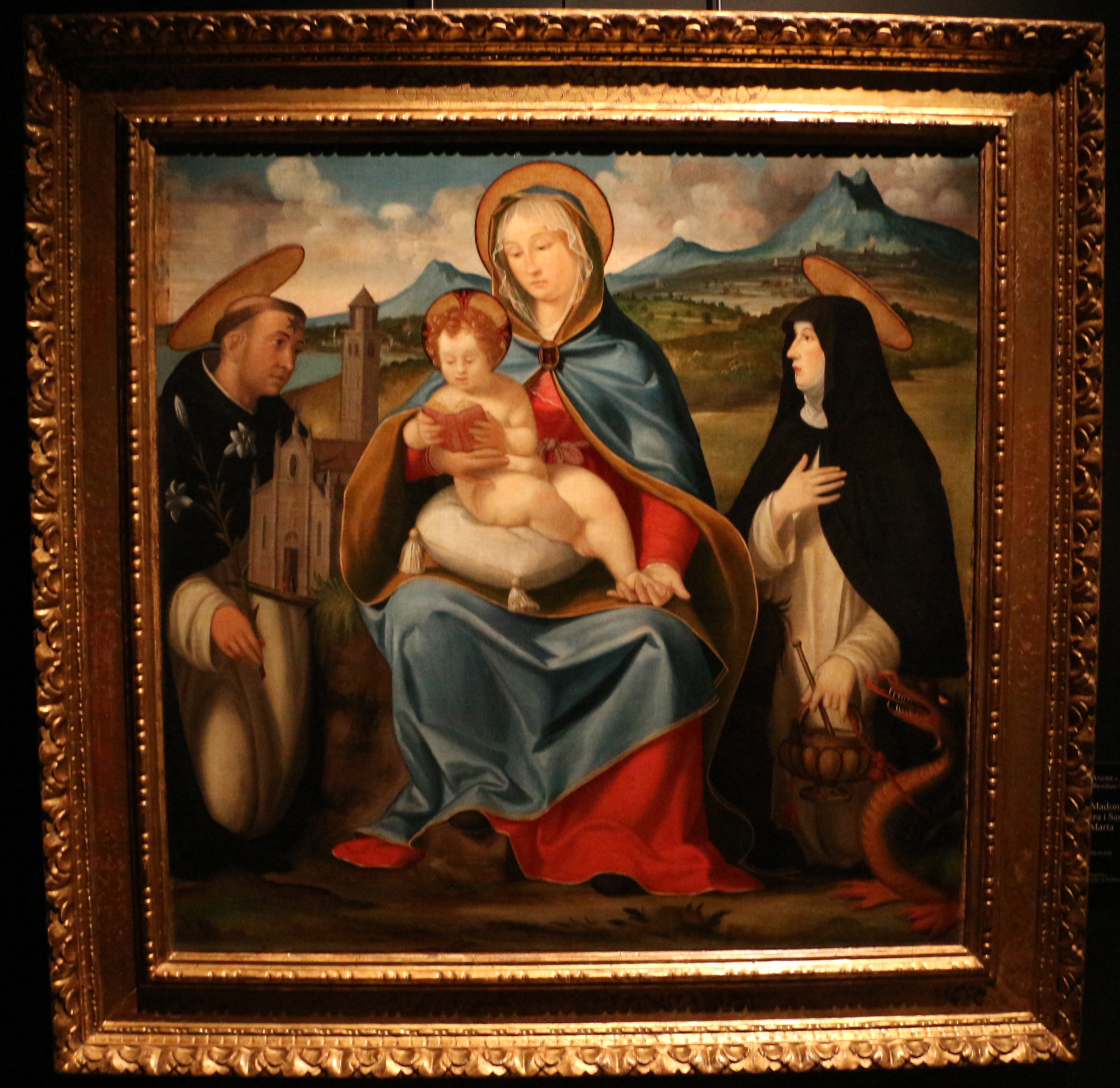 Museo Adriano Bernareggi